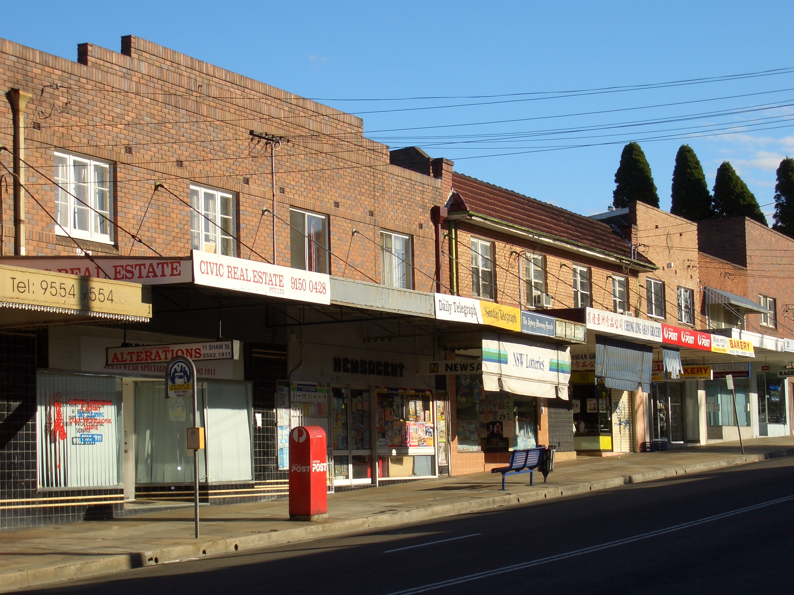 Bexley North Shops, Bexley North, Sydney